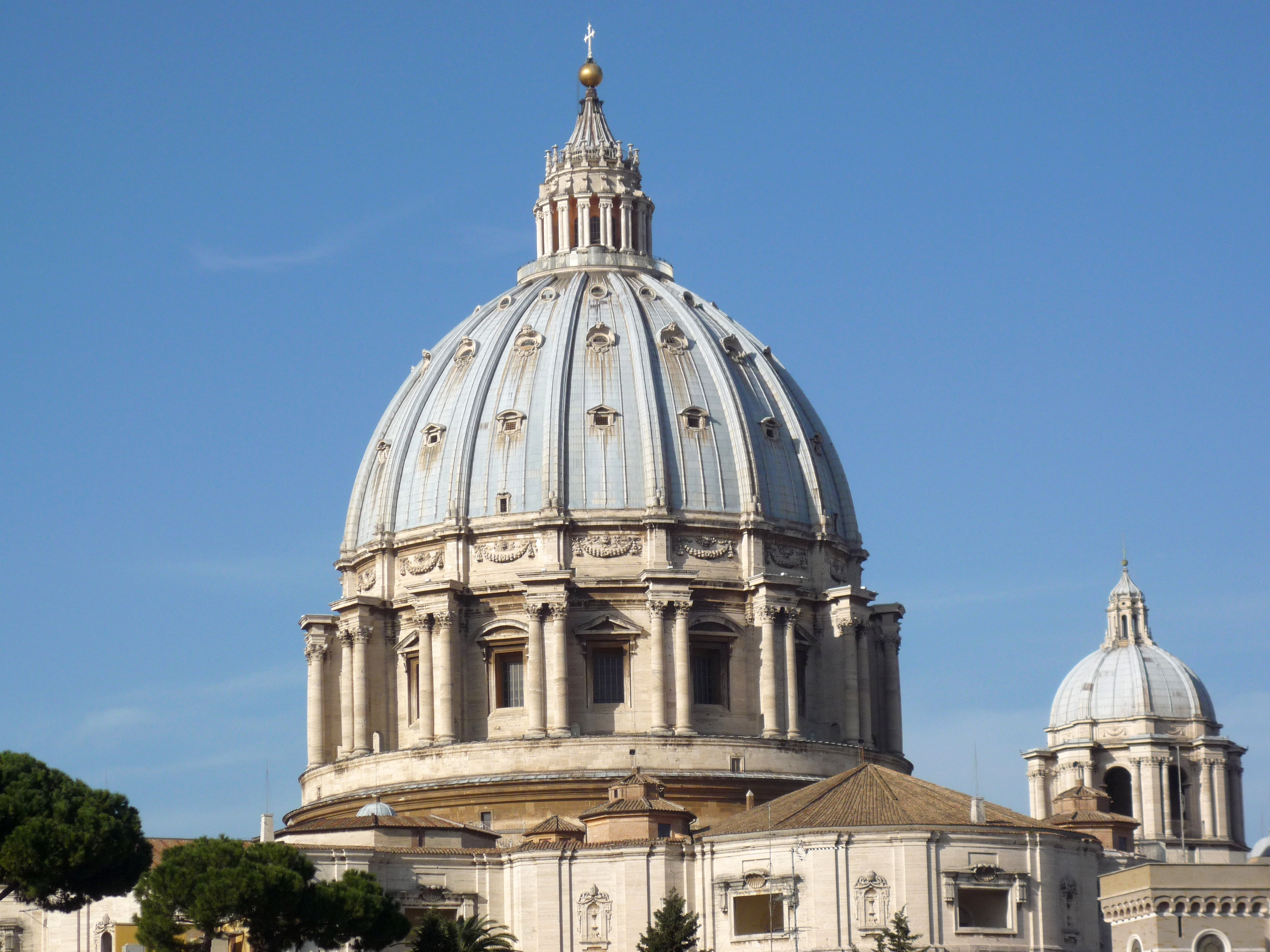 Dome of St. Peter's Basilica (Vatican, 2010)